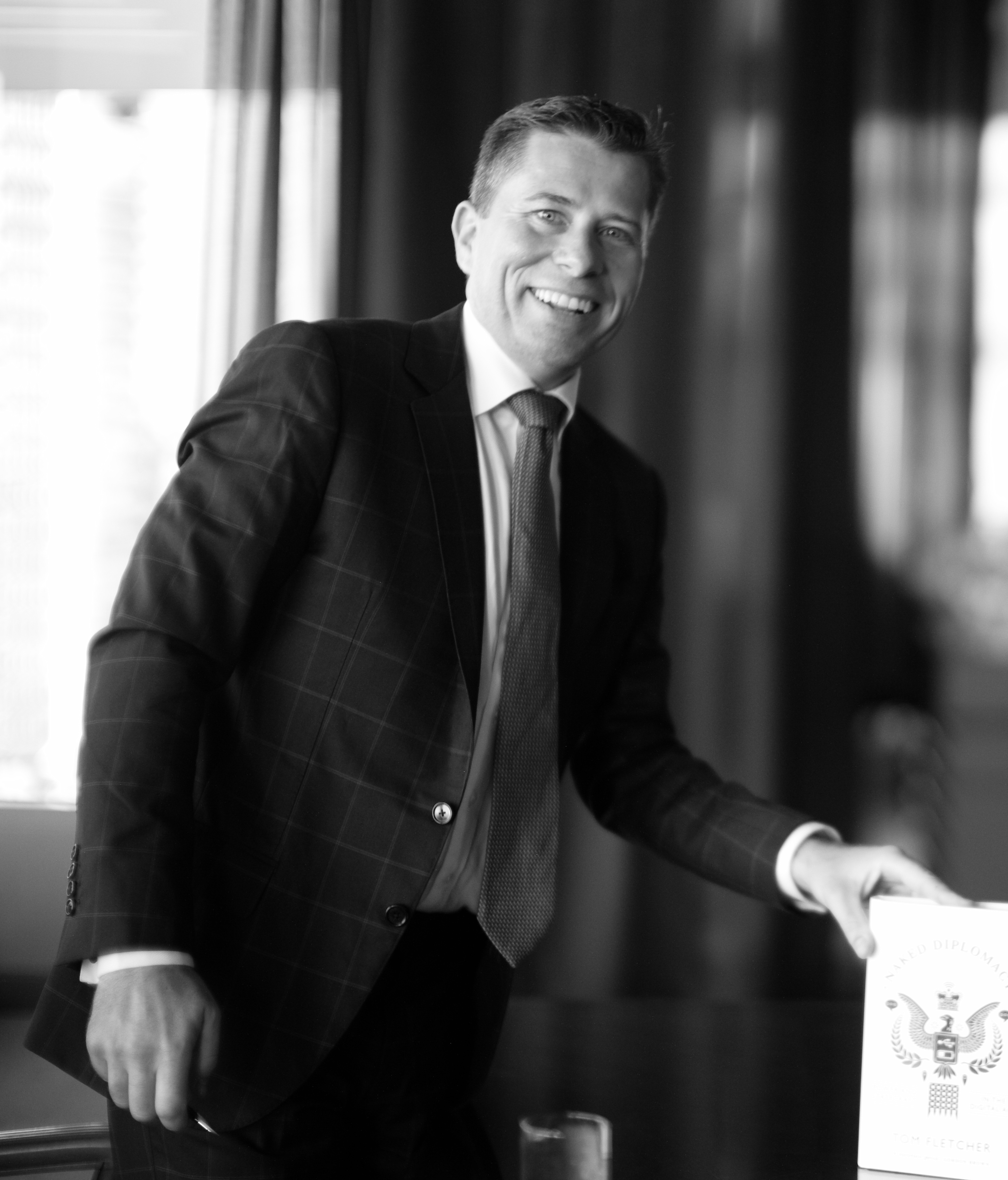 Tom Fletcher Book Launch Lebanon 2